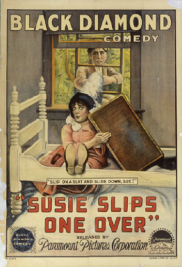 The full color poster for Susie Slips One Over, a Black Diamond Comedy filmed in Wilkes-Barre, Pennsylvania by the United Stares Motion PIcture Corporation. The film, starring Leatrice Joy, was distributed by Paramount Pictures Corporation in 1917.